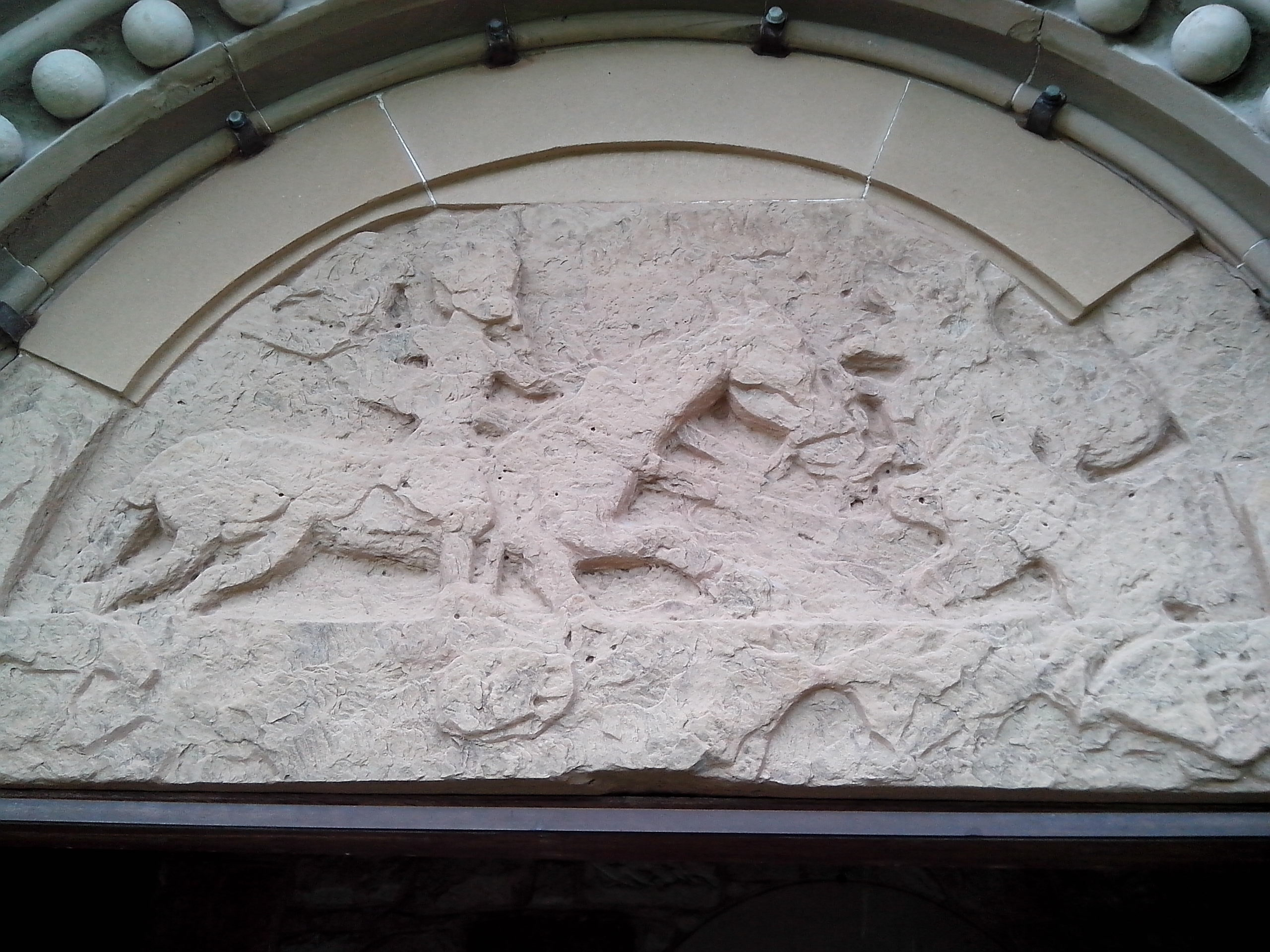 Mediaeval carving sometimes known as the "Somervail Stone", currently situated above the doorway of the church at Linton, Scottish Borders. The scene shows a knight on horseback, clad in a tunic or hauberk, with a round helmet, urging his horse against two large animals, the foreparts of which only are visible, and plunging his lance into the throat of one. Behind him is supposed to be the outline of another creature, apparently of a lamb. The image is said by tradition to be connected to the story of the Worm of Linton, although the heads of the monsters in this image are more like those of quadrupeds than of serpents.